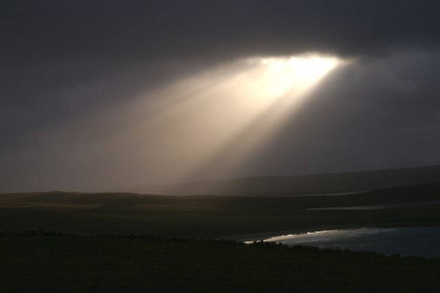 Shaft of light, Westing A beam of light through a gap in the clouds over Lunda Wick. It was better a little earlier but it was so windy the moment lasted just a few seconds.